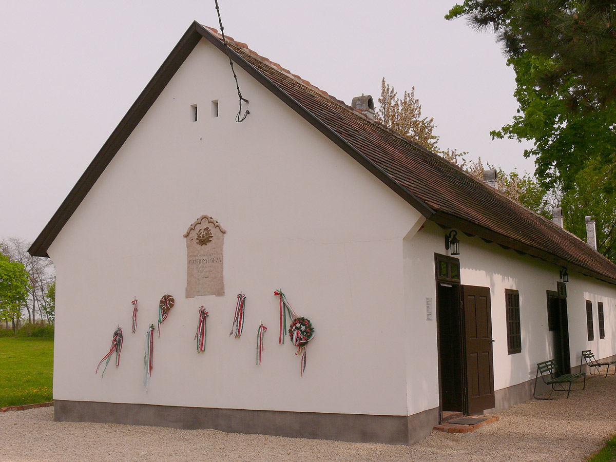 Birthplace of Géza Gárdonyi (1863–1922) Hungarian writer in Agárdpuszta, today G. G. Memorial Museum